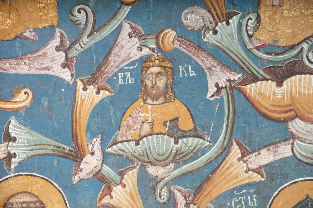 Detail of fresco Loza Nemanjića,Vukan,Visoki Dečani,Serbia.